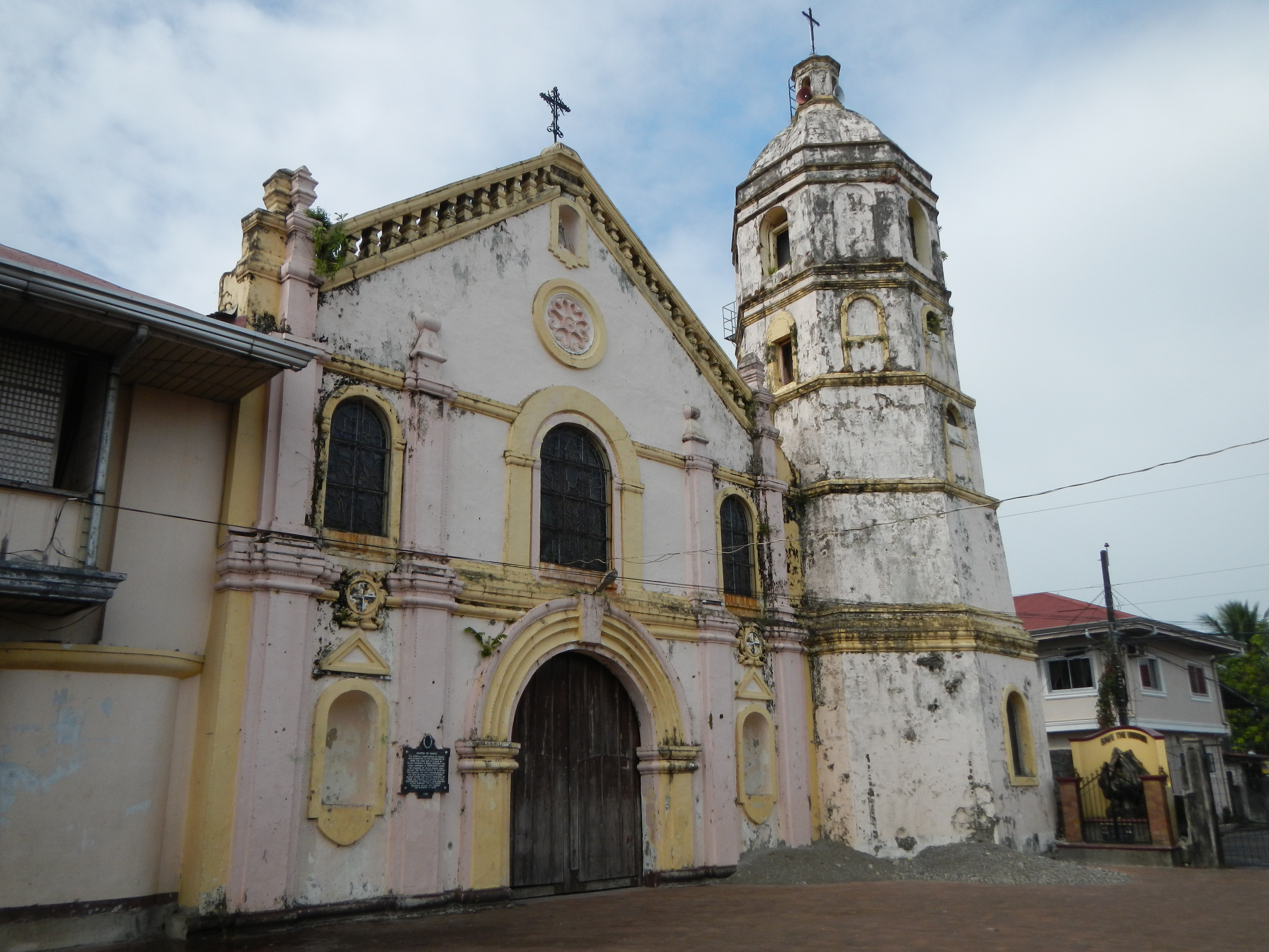 1596 Parish Church of St. Catherine of Siena (Samal 2113 Bataan, Philippines) Pop.: 16,741 Cath.: 11,581 Titular: St. Catherine of Siena, April 30 Parish Priest: Monsignor Edilfredo Cruz[1]Vicariate of St. Dominic de Guzman[2] The spiritual ministration of Samal was entrusted to the Dominicans in 1596. The town was attacked by Dutch invaders in April 1647 but the local garrison of Pampanga under the command of Alejo Aguas compelled the Dutch forces to retreat. The church and the convent built by the Rev. Jeromino Belen, O.P. were ruined during the Dutch invasion. In 1896 the church was burned by the Katipuneros to drive out their enemies in the convent. The Rev. Justo Quesada rebuilt the church and convent in 1903. It belongs to the Roman Catholic Diocese of Balanga[3][4] [5][6] (Dioecesis Balangensis) Suffragan of San Fernando, Pampanga Created: March 17, 1975. Canonically Erected: November 7, 1975. Comprises the whole civil province of Bataan. Titular: St. Joseph, Husband of Mary, April 28. Bishop Most Reverend Ruperto Cruz Santos, DD[7][8]